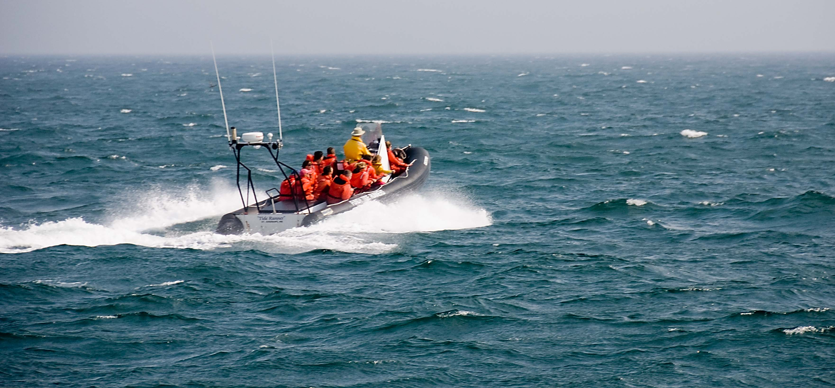 Zodiac Boot auf Passamaquoddy Bay (Whale-Watching)